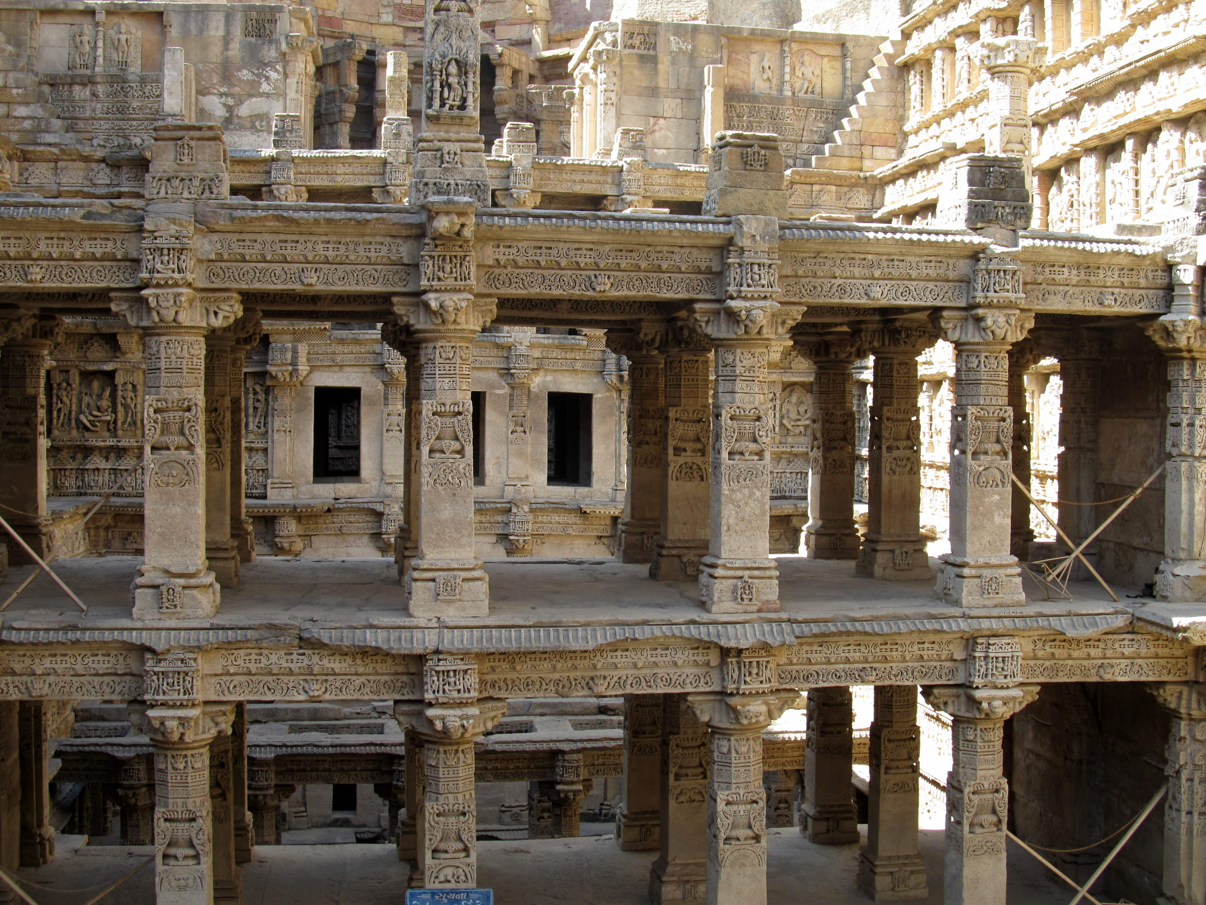 Rani-ki-vav